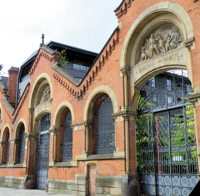 Former wholesale fish market The former Manchester wholesale fish market now houses upmarket apartments. This shot shows the front of the building on High Street